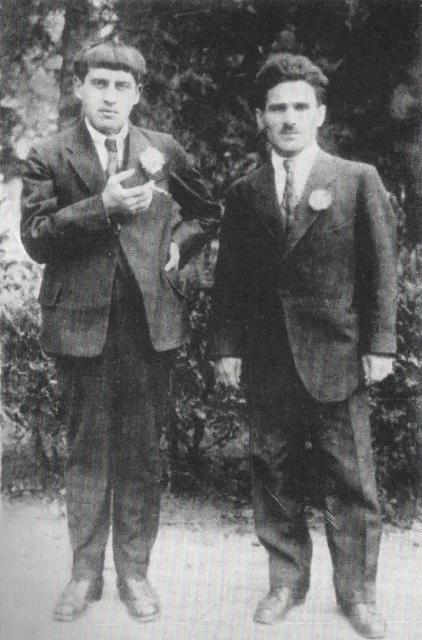 Georgian Symbolist poets, Titsian Tabidze and Valerian Gaprindashvili